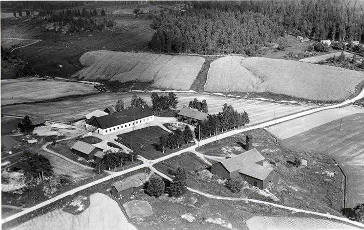 Aerial photgraph of Rekola farm in Jämsänkoski, Finland in 1935